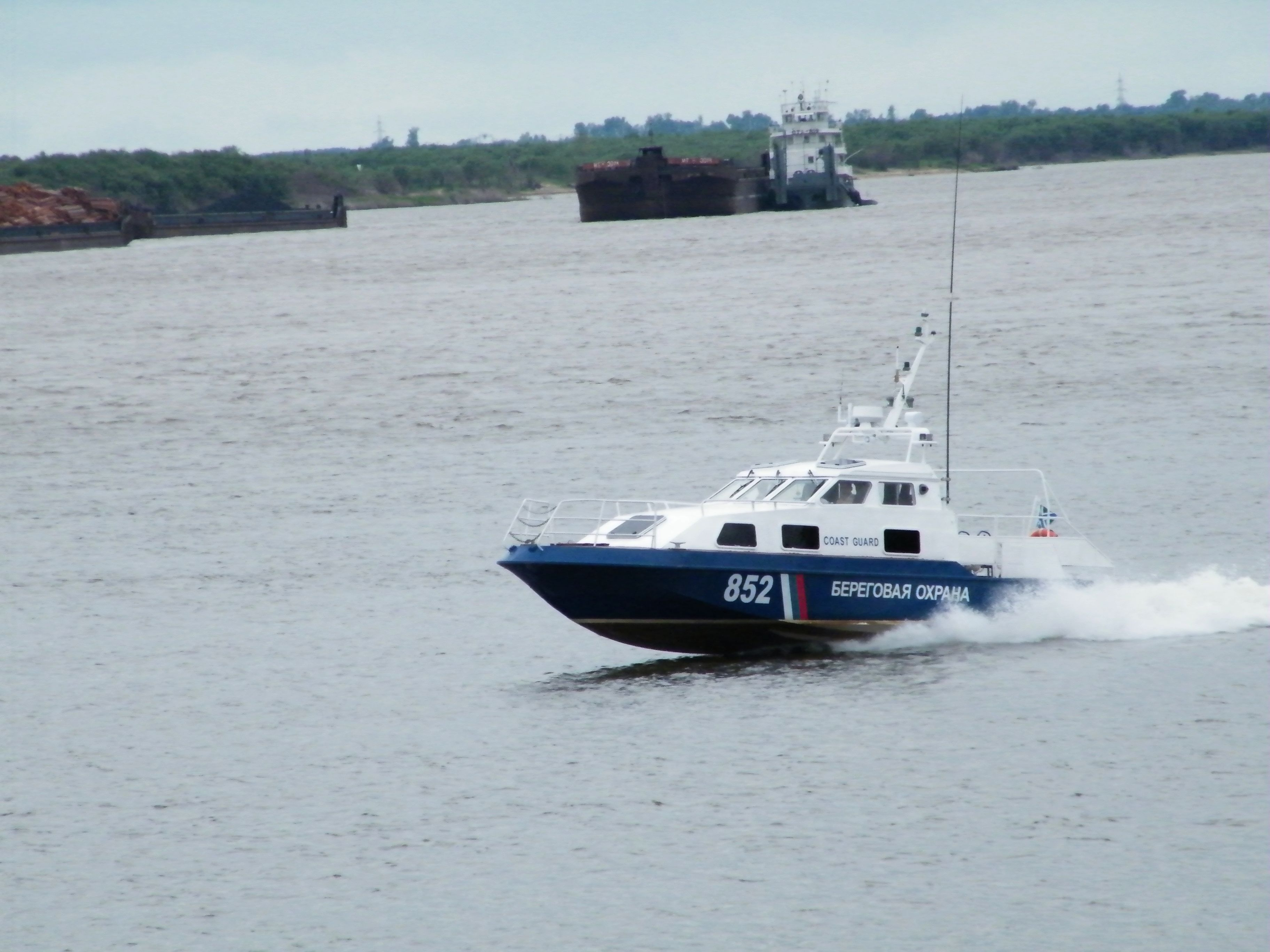 Amur Military Flotilla